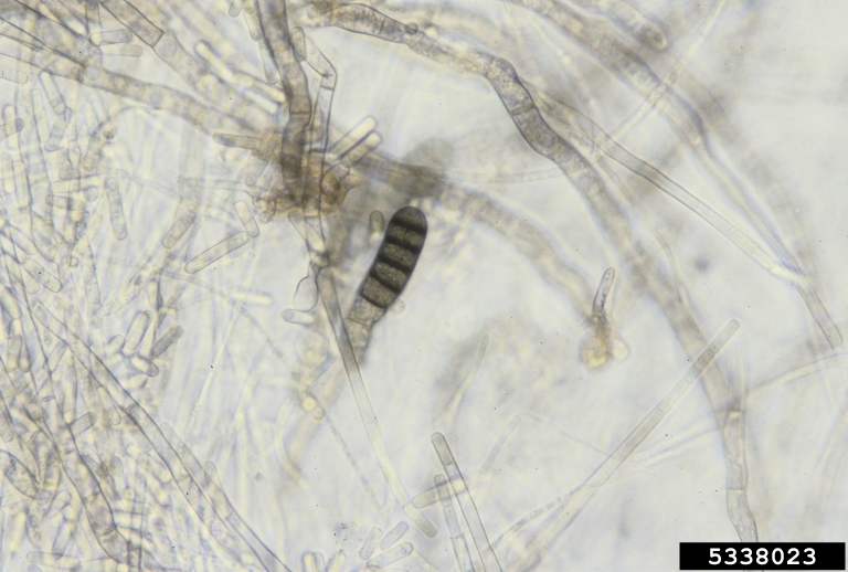 Microscopic view of Thielaviopsis chlamydospores (black) and endoconidia (hyaline)